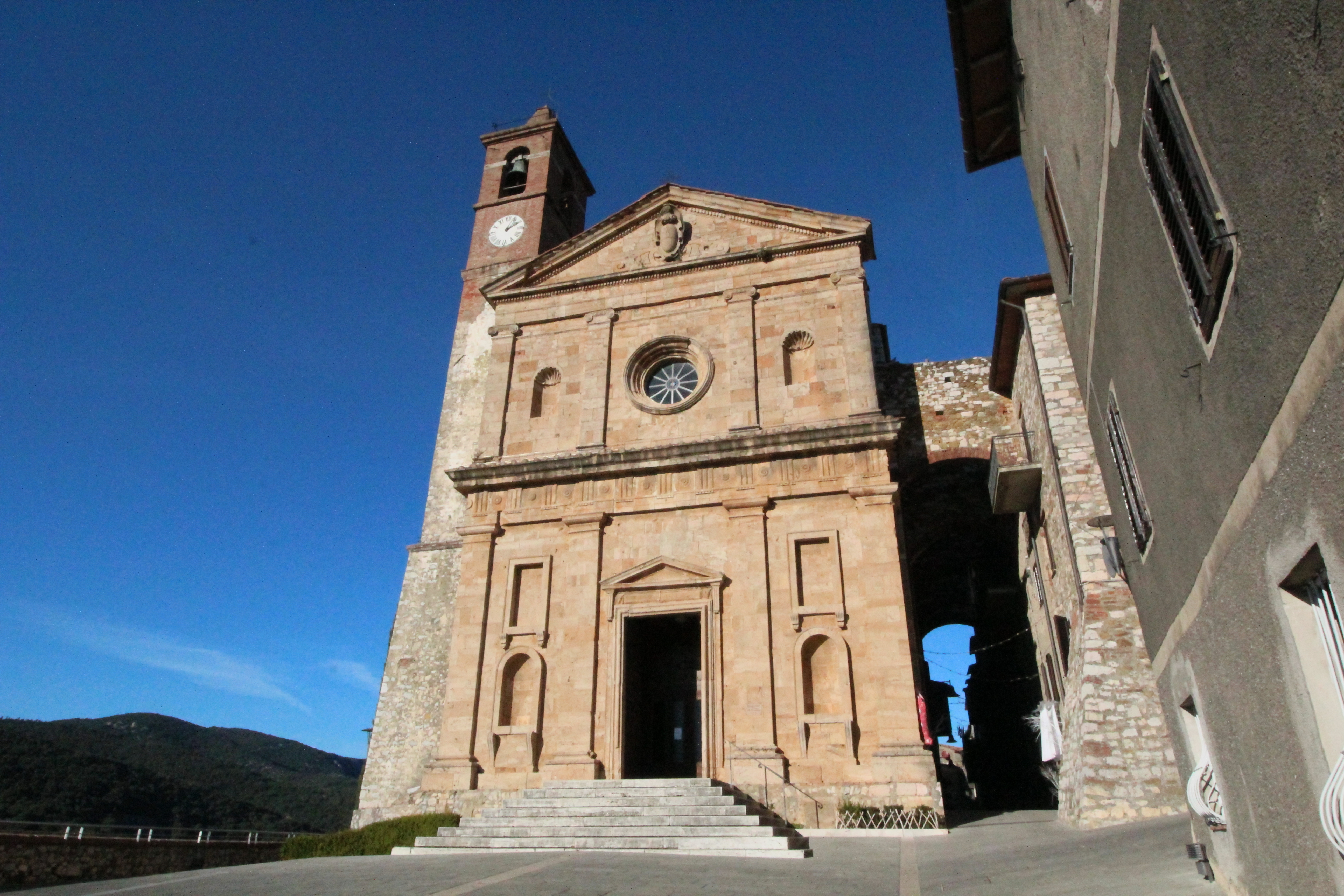 Church of San Biagio in Caldana, hamlet of Gavorrano, Maremma, Province of Grosseto, Tuscany, Italy. Build 1575.